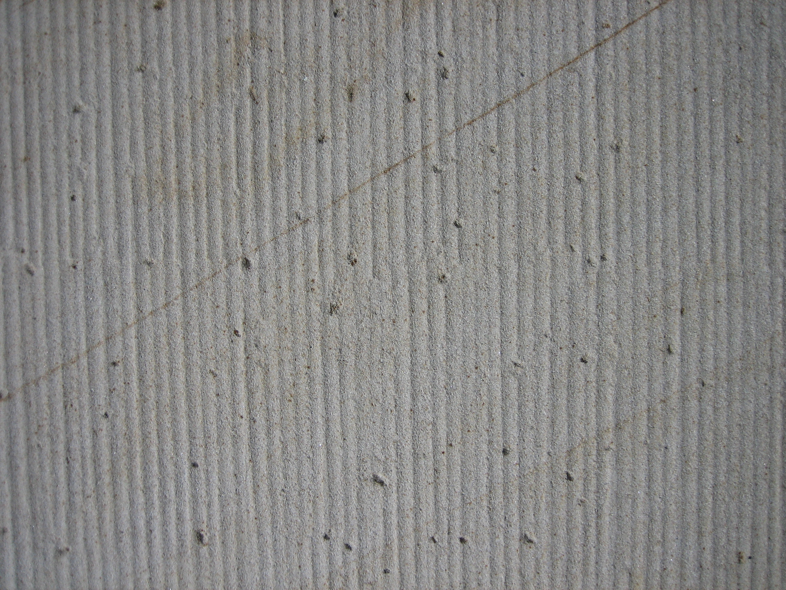 yellow sandstone lined surface